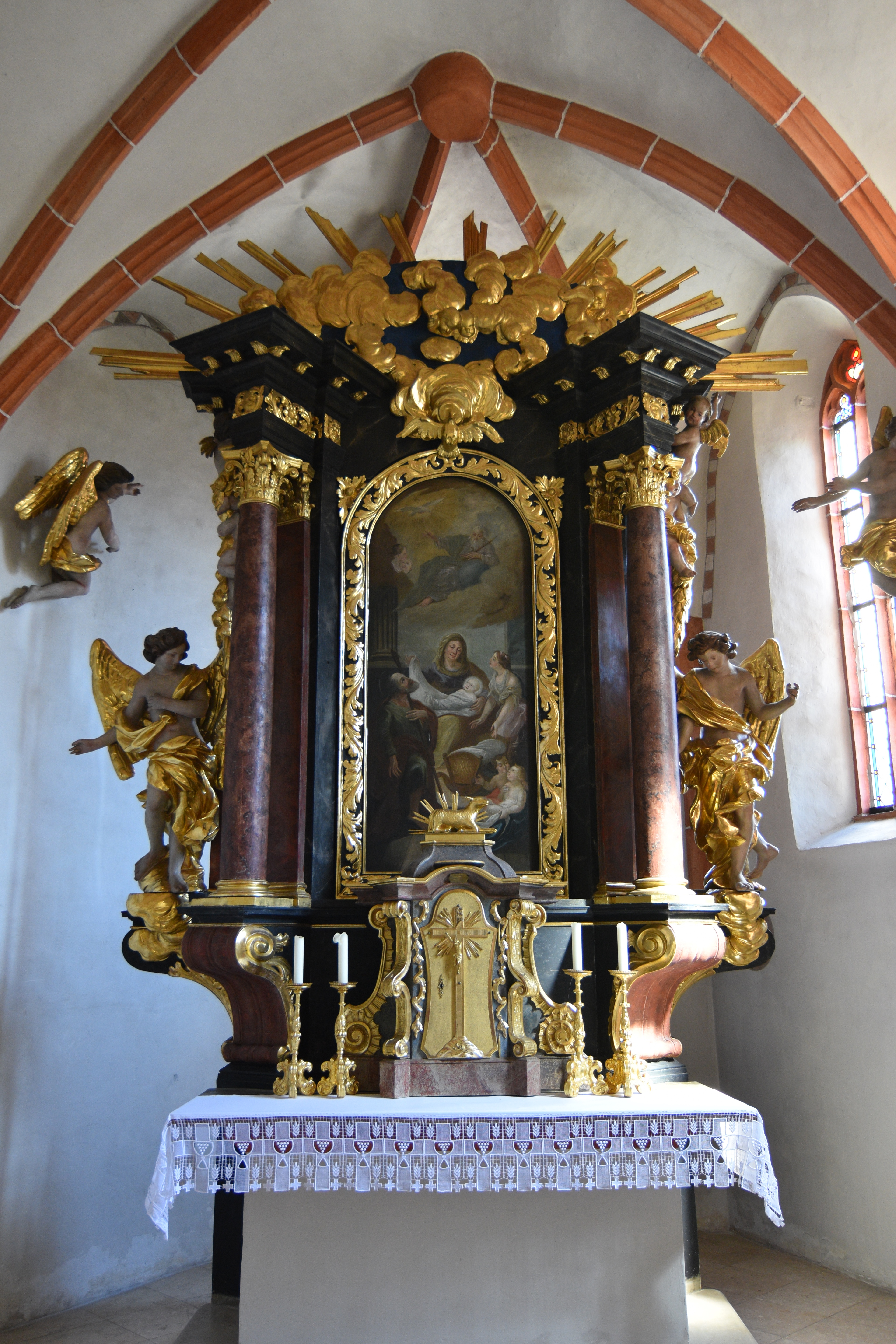 Church Maria Geburt Hannersdorf - Interior